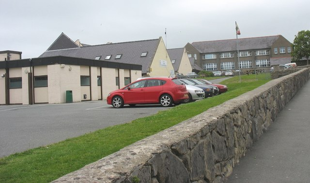 Ysgol Dyffryn Nantlle This is a 11-18 comprehensive school serving the Nantlle Valley (Dyffryn Nantlle).